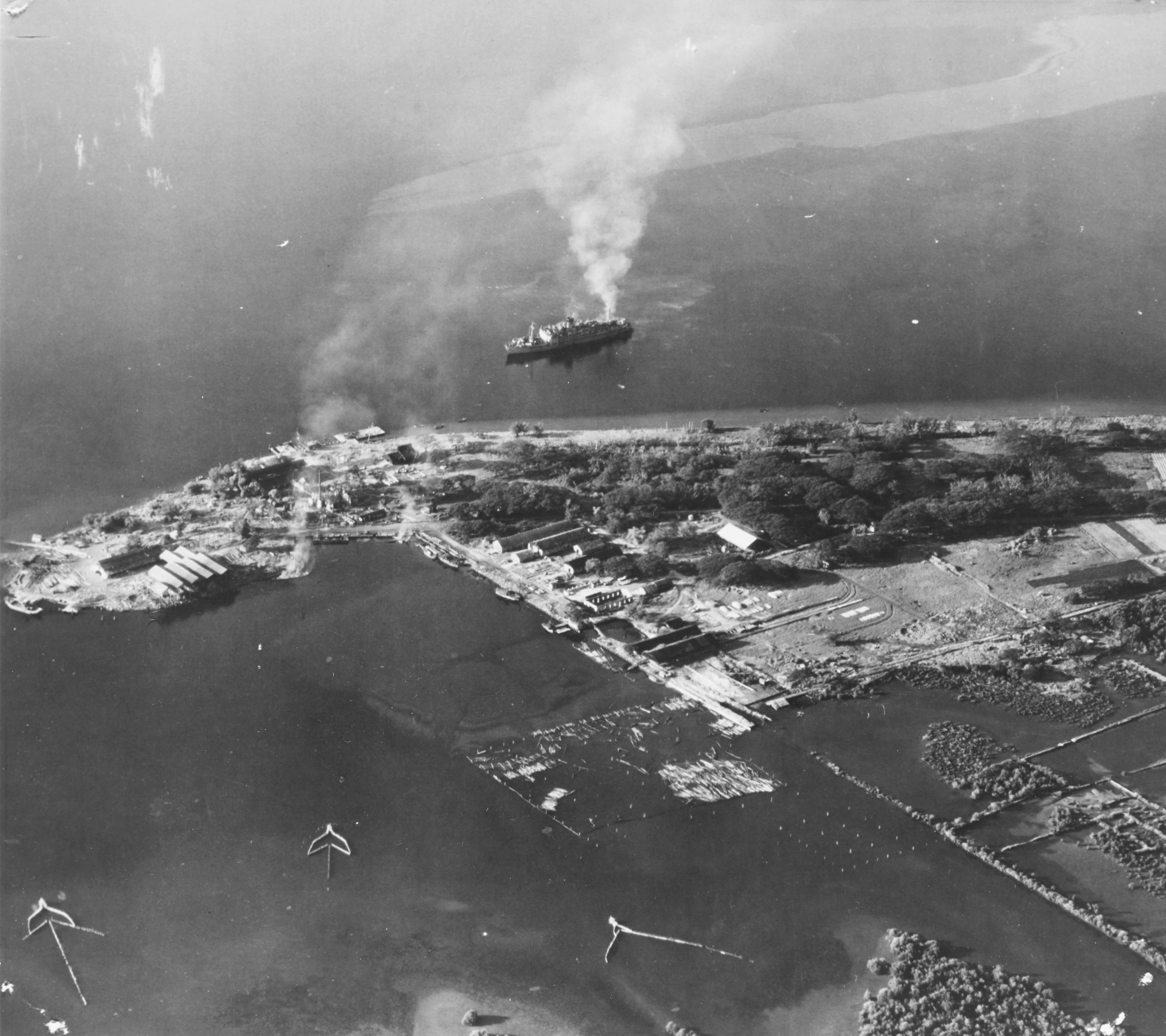 Aerial photo of the former U.S. Naval station, Olongapo, taken from a USS Hancock (CV-19) plane on 15 December 1944. The large ship is the Oryoku Maru, sunk in Subic Bay by U.S. Third Fleet planes on 16 December.